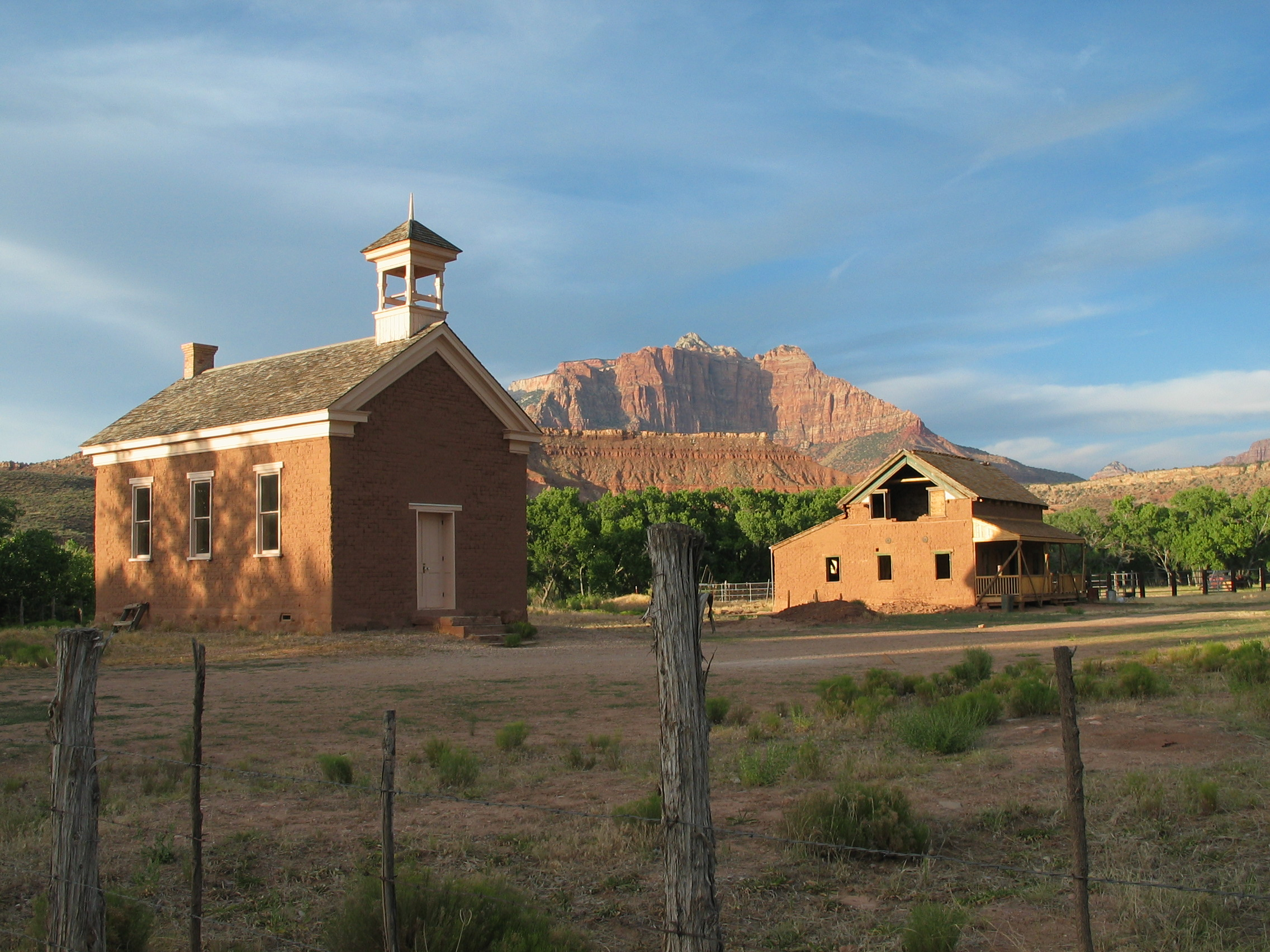 Two of the last remaining buildings of Grafton, Utah, a ghost town south of Zion National Park (which you can see in the background). The schoolhouse was built in 1886, it was also used as a church and public meeting place.